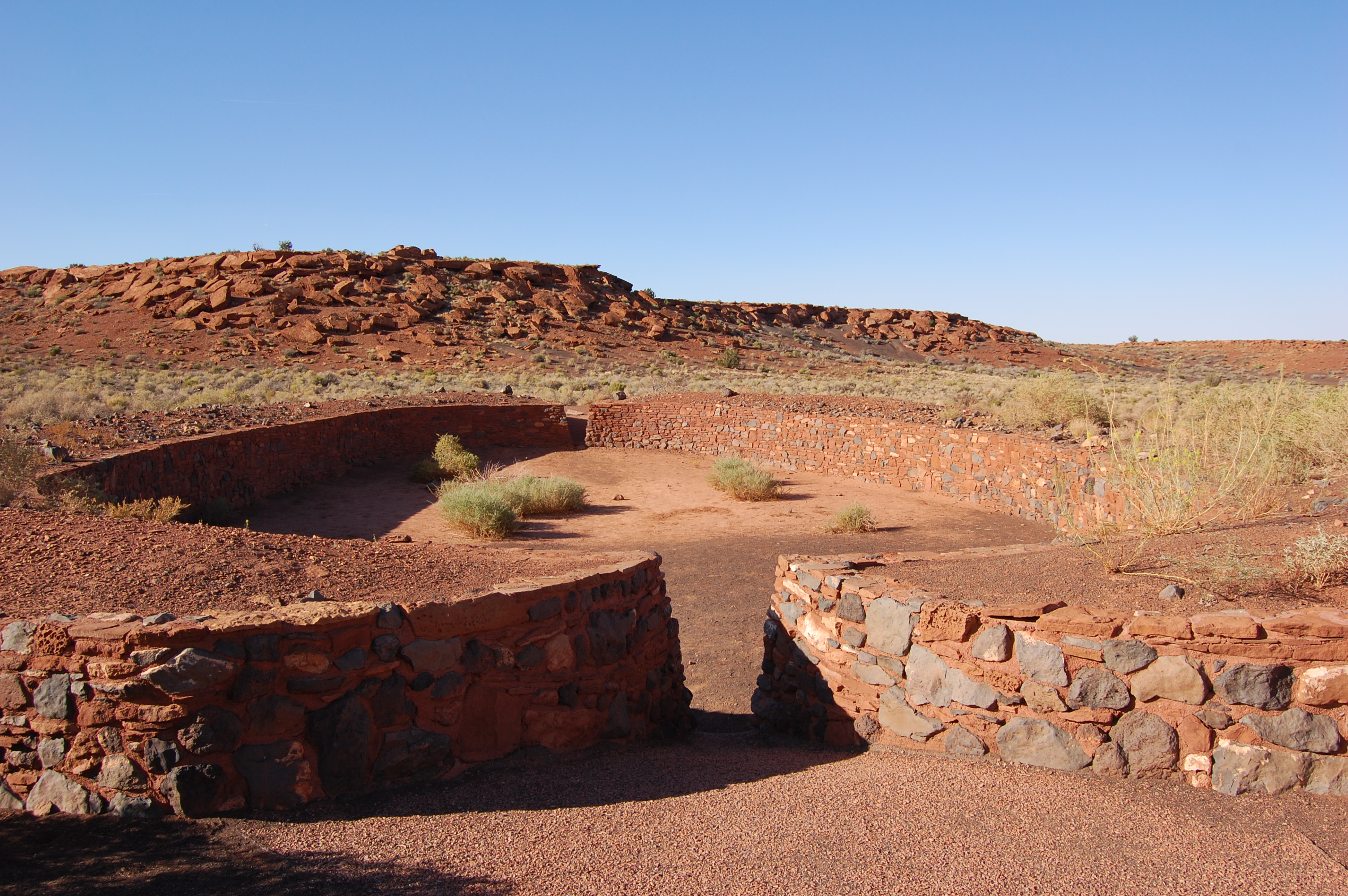 Wupatki Ruins Ball Court